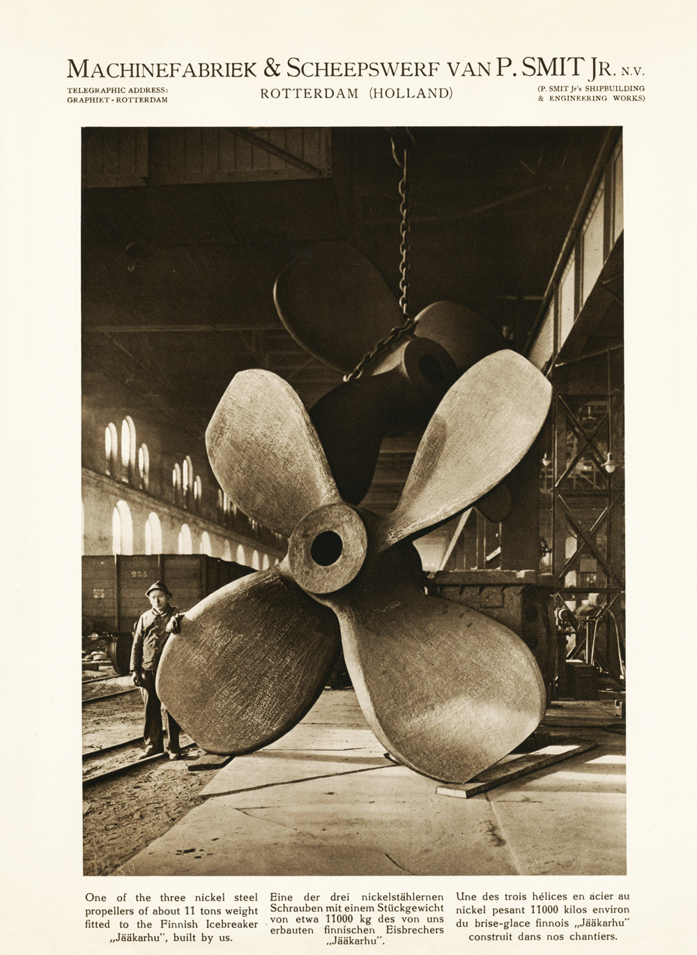 Nickel steel propellers of Finnish icebreaker Jääkarhu